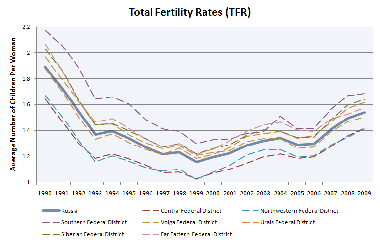 Russian Total Fertility Rates since 1990. Source: Rosstat